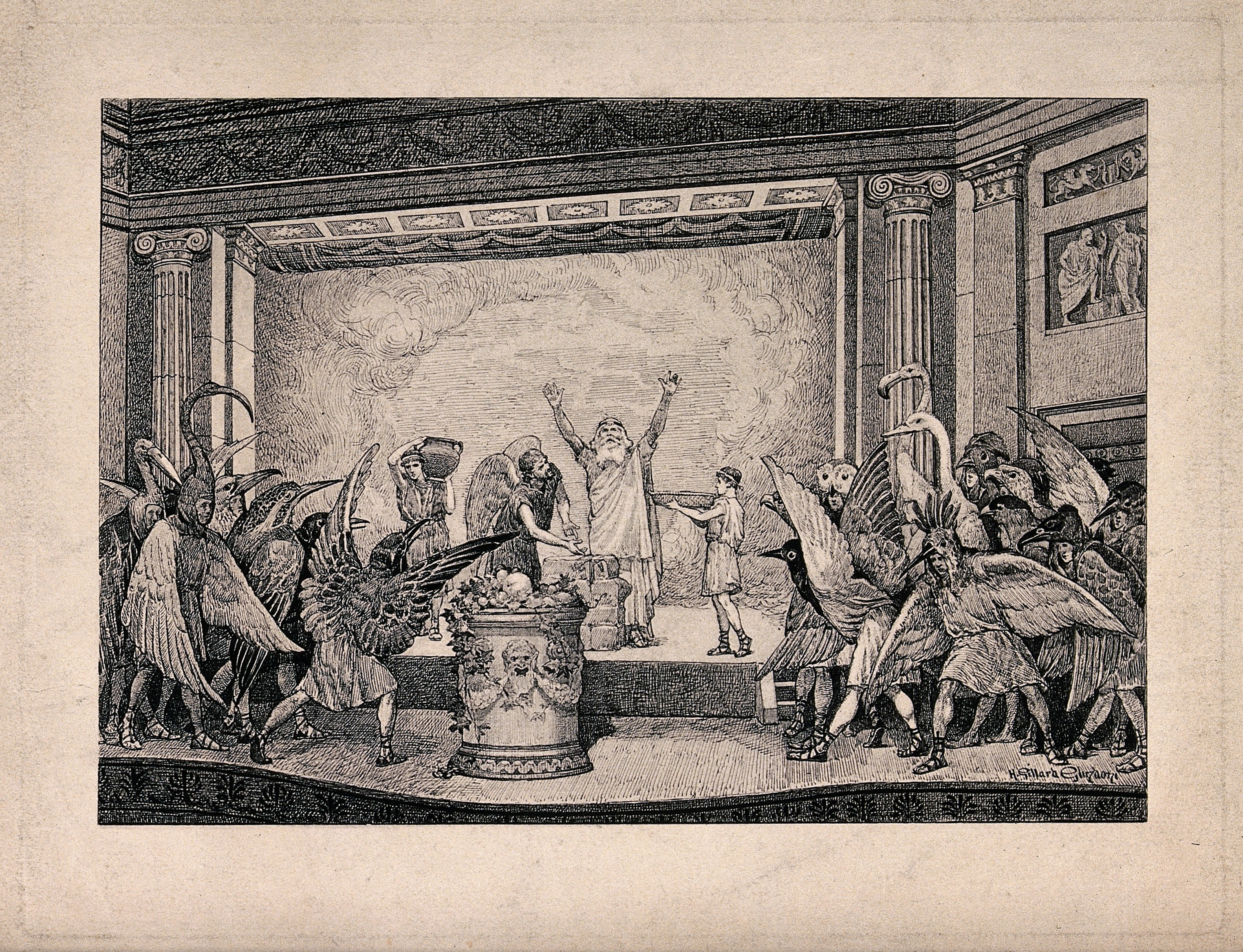 A performance of the play Birds by Aristophanes: a man is performing on a stage attended by a man with wings and a young boy, other people dressed in bird costume are gathered around the front of the stage. Etching by Henry Gillard Glindoni. Iconographic Collections Keywords: Henry Gillard Glindoni; Aristophanes